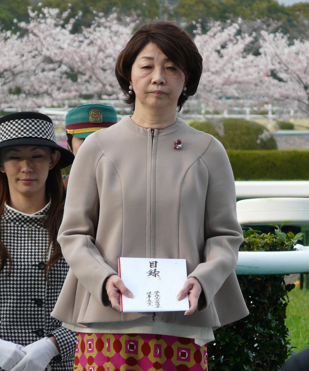 Kazumi-Yoshida20110410